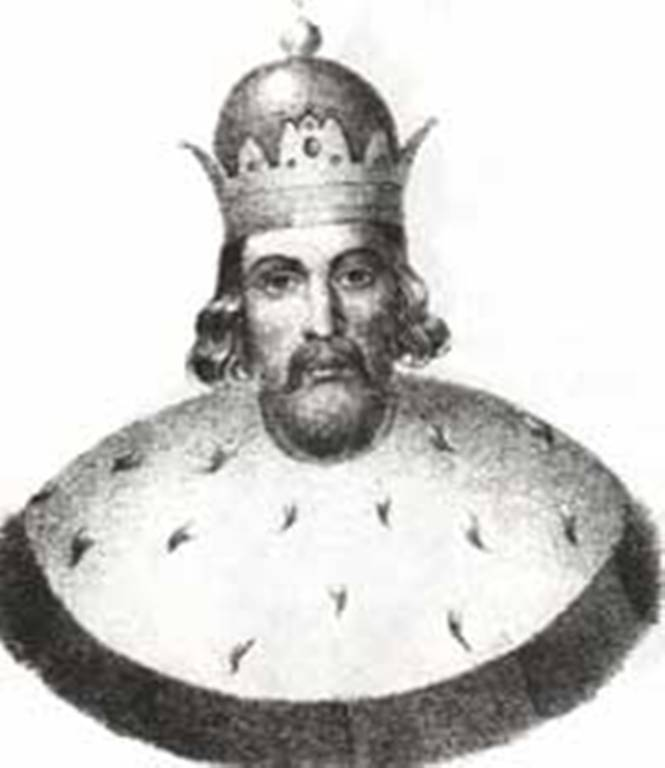 Grand Prince Andrei of Gorodets miniature